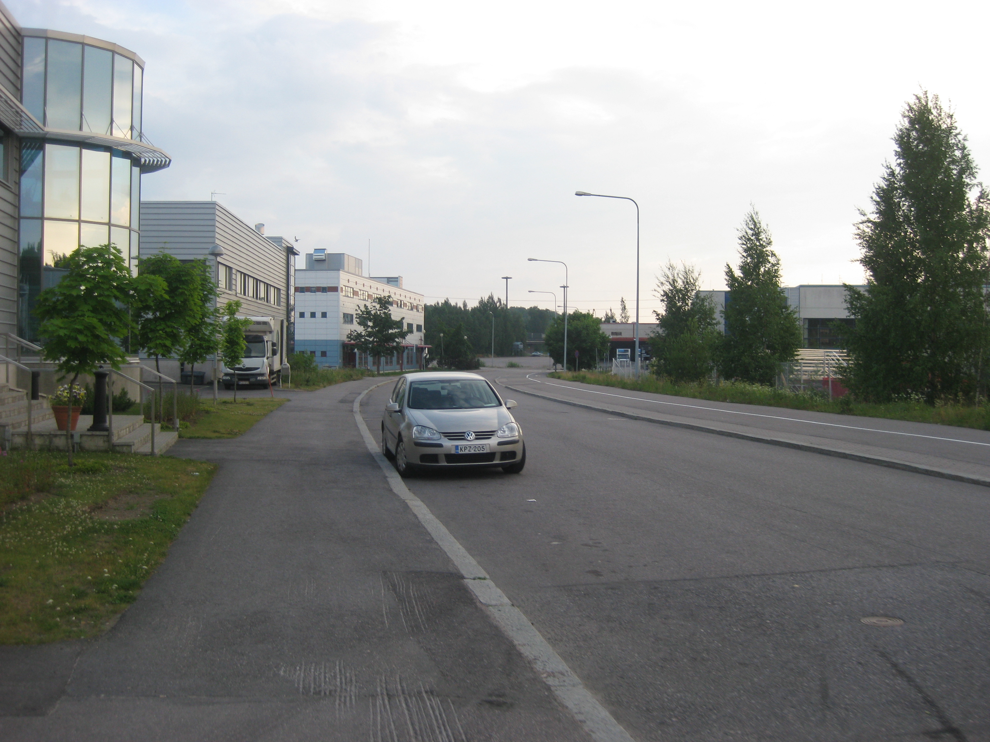 Holkkitie street in Roihupellon teollisuusalue, Helsinki